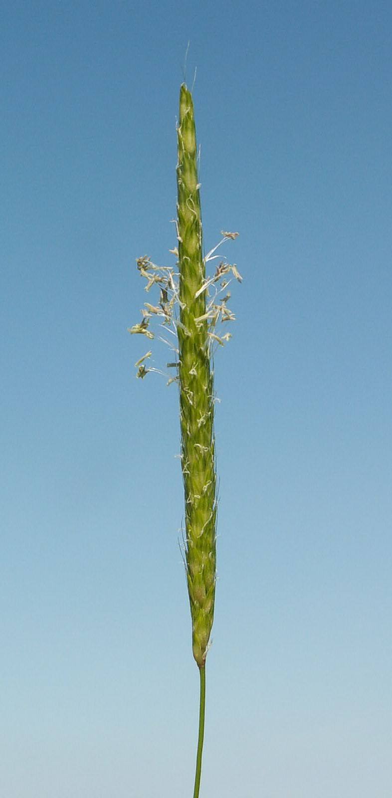 Inflorescence of Alopecurus myosuroides